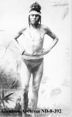 Deerfoot, a Blackfoot runner after whom Deerfoot Trail in Calgary was named.